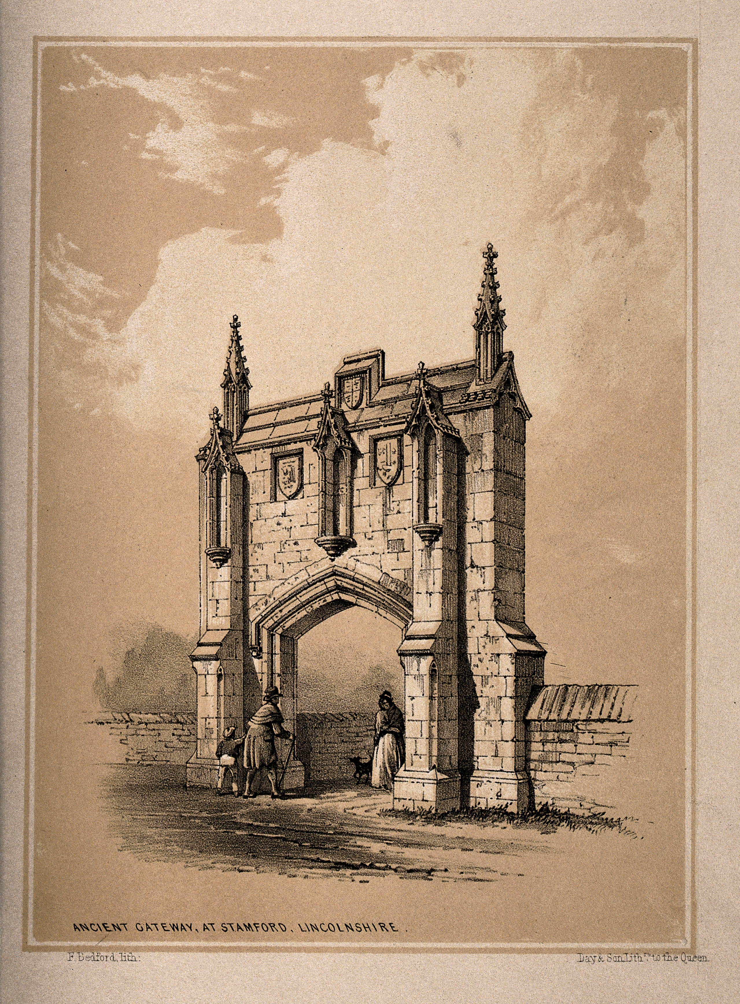 Ancient Gateway, Stamford, Lincolnshire. Tinted lithograph by F. Bedford. Iconographic Collections Keywords: F. Bedford